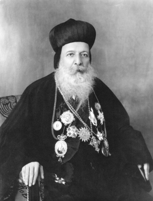 Syriac Orthodox Patriarch Ignatius Afram I Barsoum, (1887-1957).